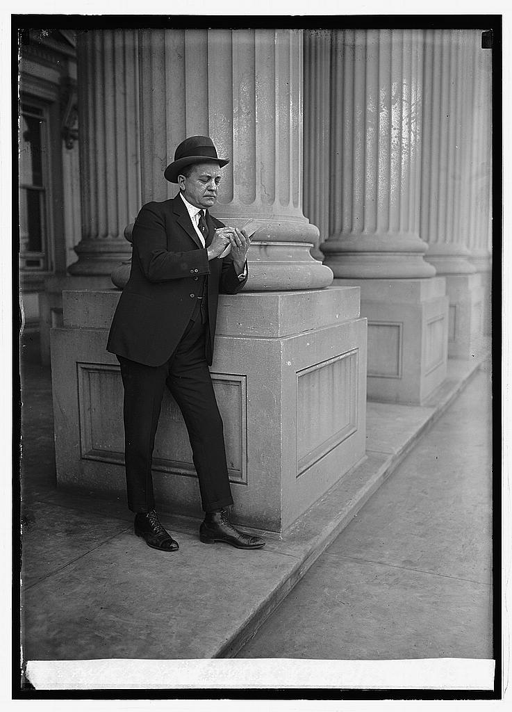 Portrait of Robert N. Stanfield of Oregon